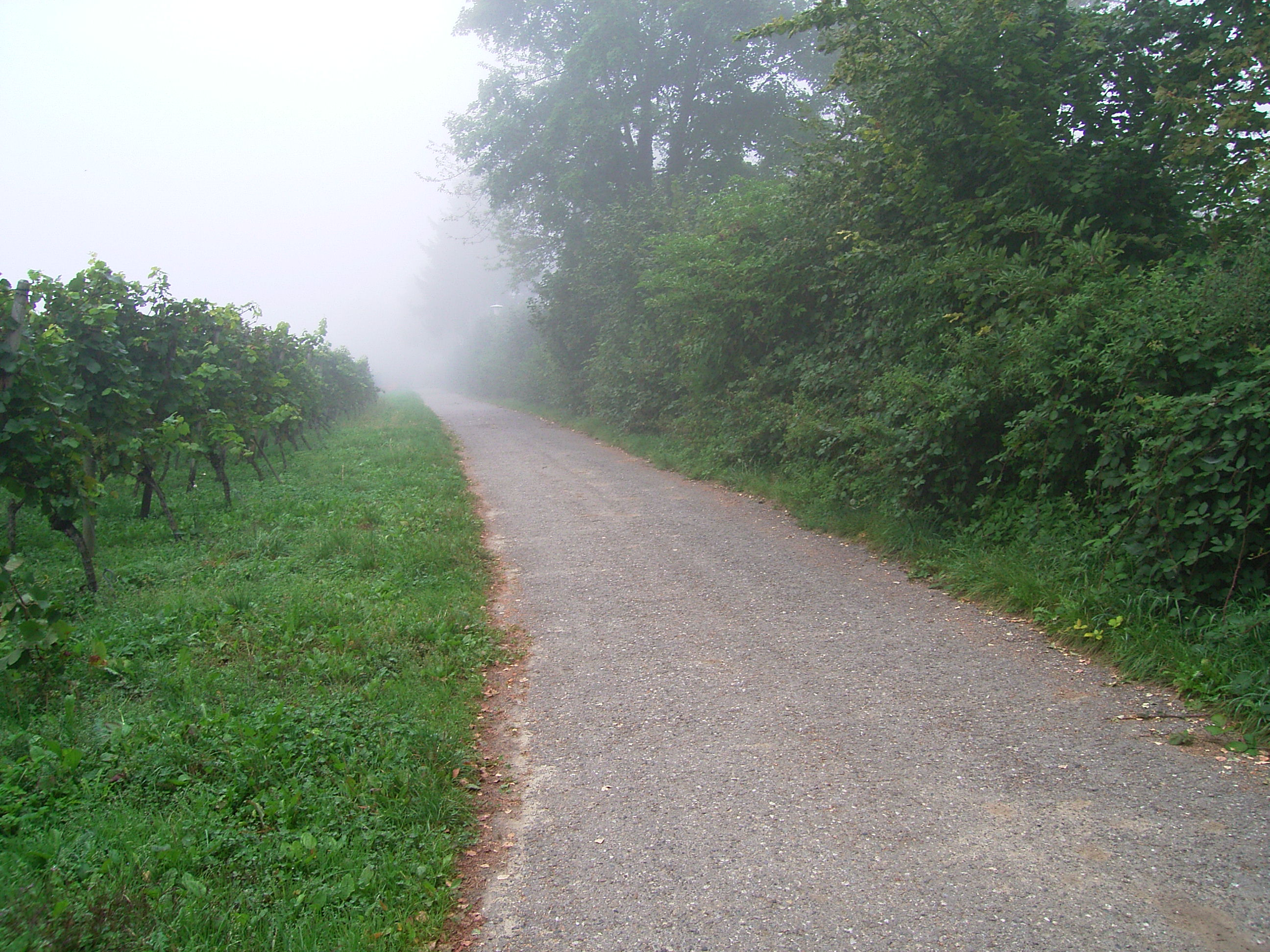 Fog in the Vineyards